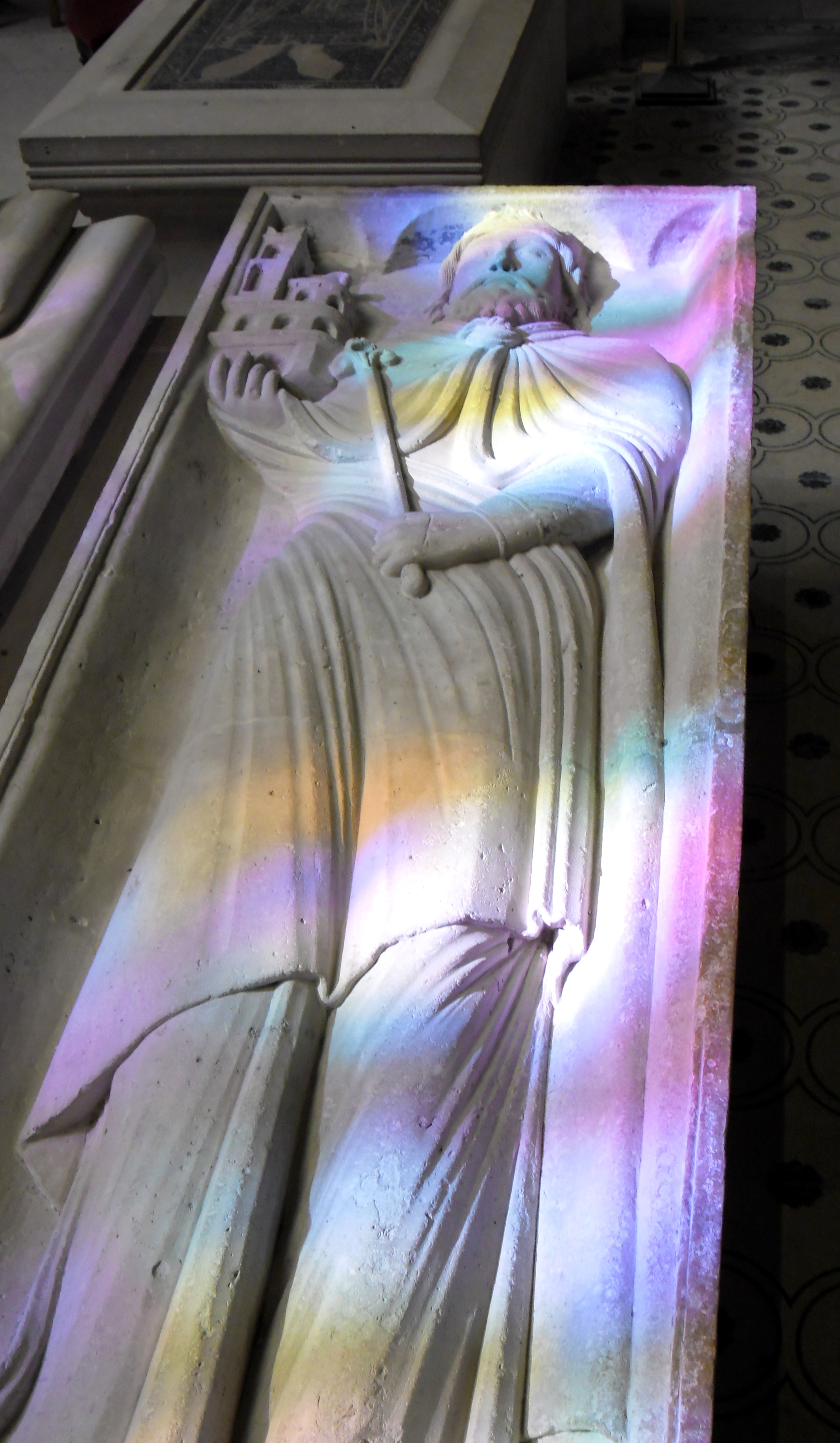 Tomb of St. Childebert in Basilique St-Denis